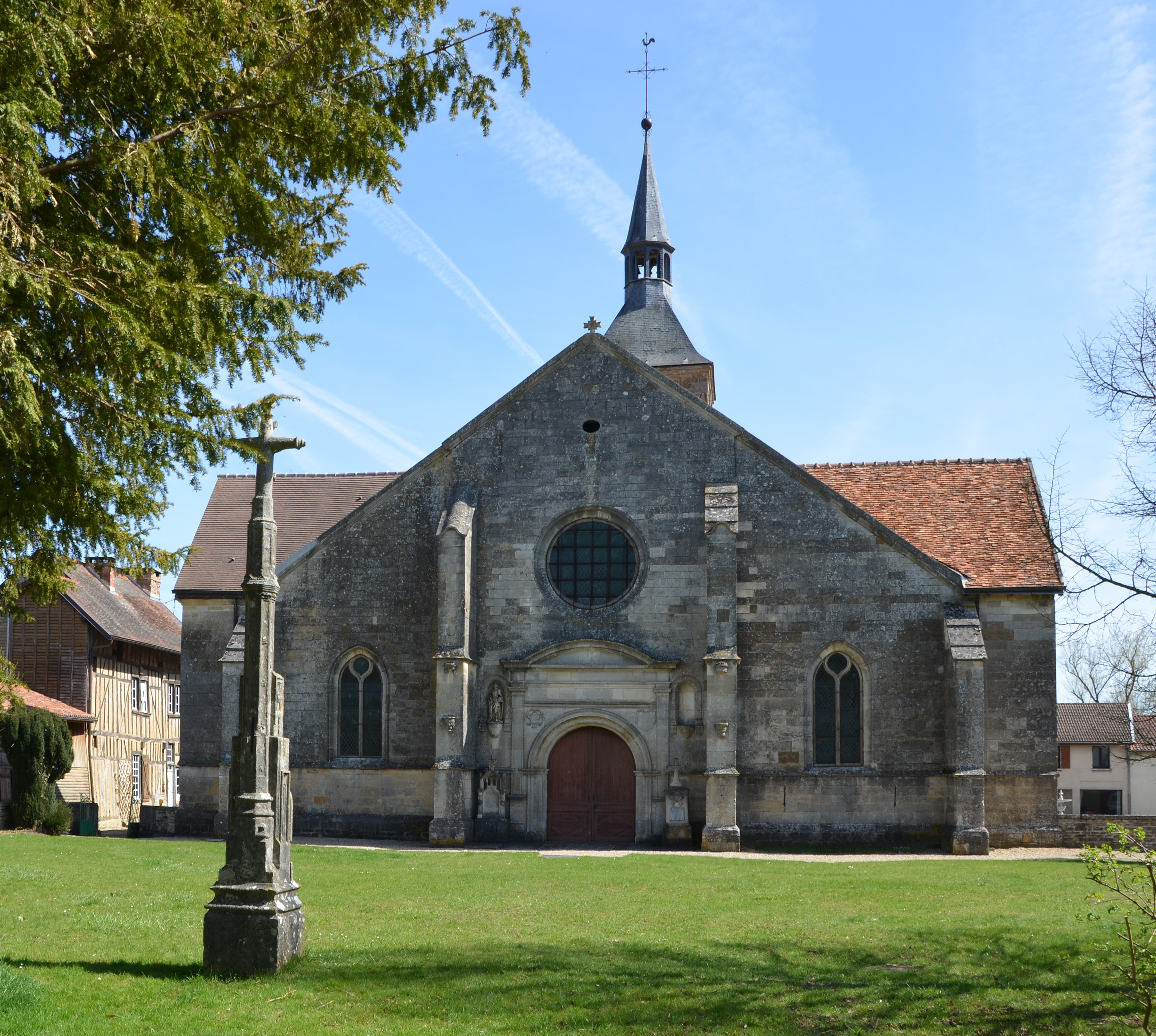 Church of Ceffonds, Haute-Marne, Champagne, France